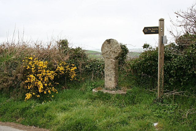 Signpost and Cross This signpost points the direction of the Saints Way, a footpath from the north to the south coast of Cornwall. Appropriately it is next to an old Celtic cross (St Ingunger Cross).